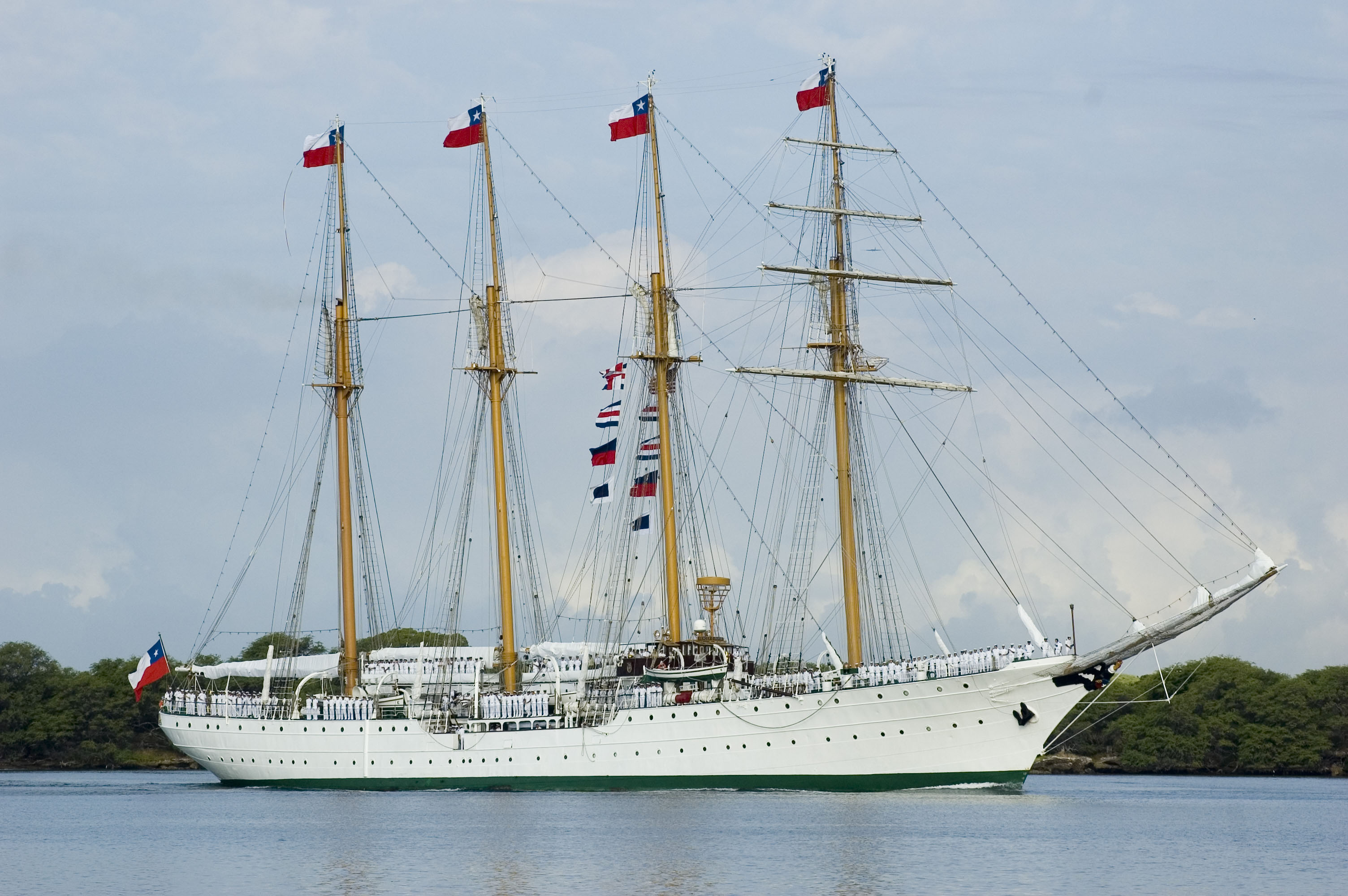 Pearl Harbor, Hawaii (June 26, 2006) — The Chilean Navy training ship TS Esmeralda (BE-43) pulls into Pearl Harbor for a scheduled port call before starting Rim of the Pacific (RIMPAC) 2006. Eight nations are participating in RIMPAC, the world's largest biennial maritime exercise. Conducted in the waters off Hawaii, RIMPAC brings together military forces from Australia, Canada, Chile, Peru, Japan, the Republic of Korea, the United Kingdom and the United States. U.S. Navy photo by